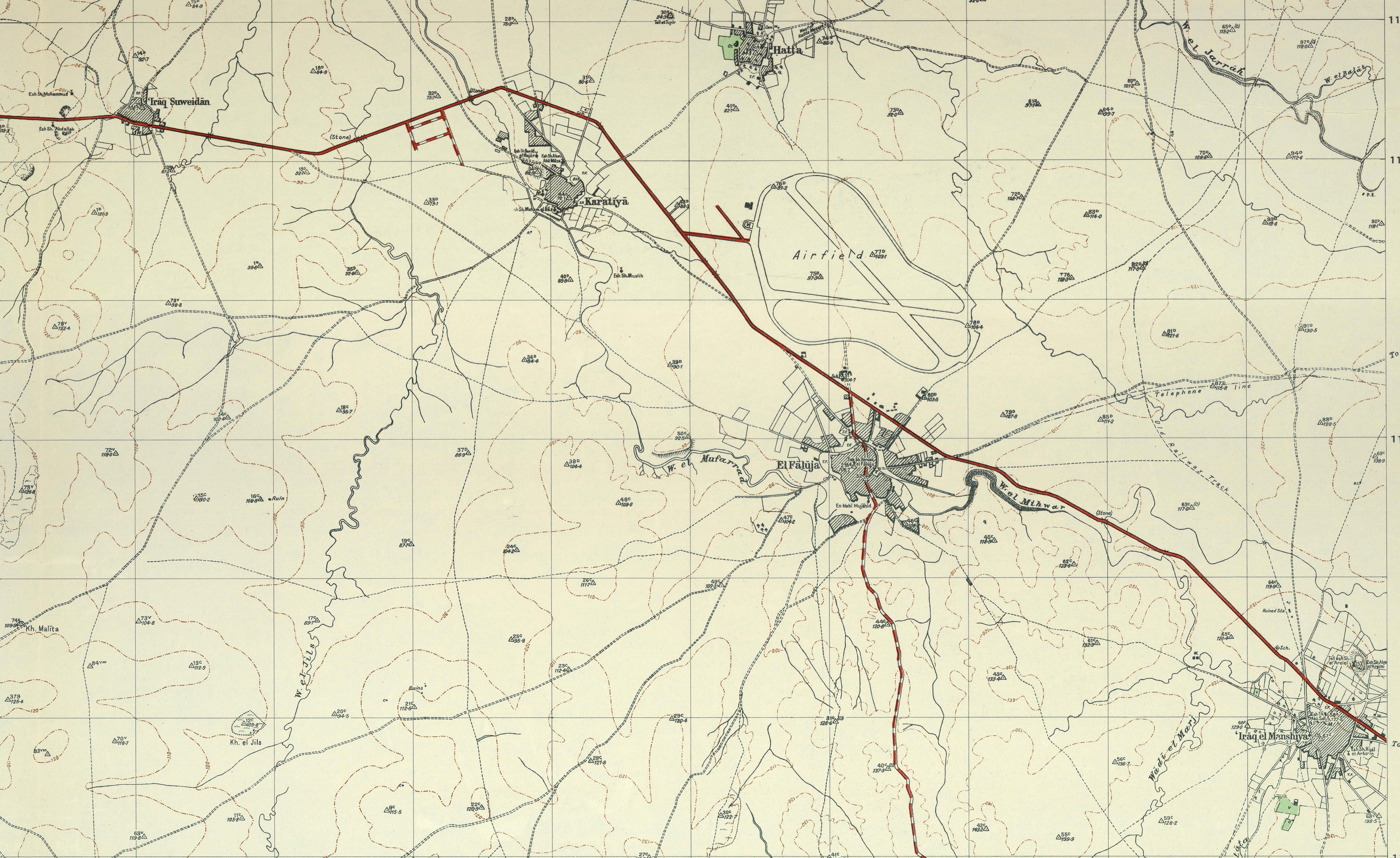 Faluja 1948 1:20,000